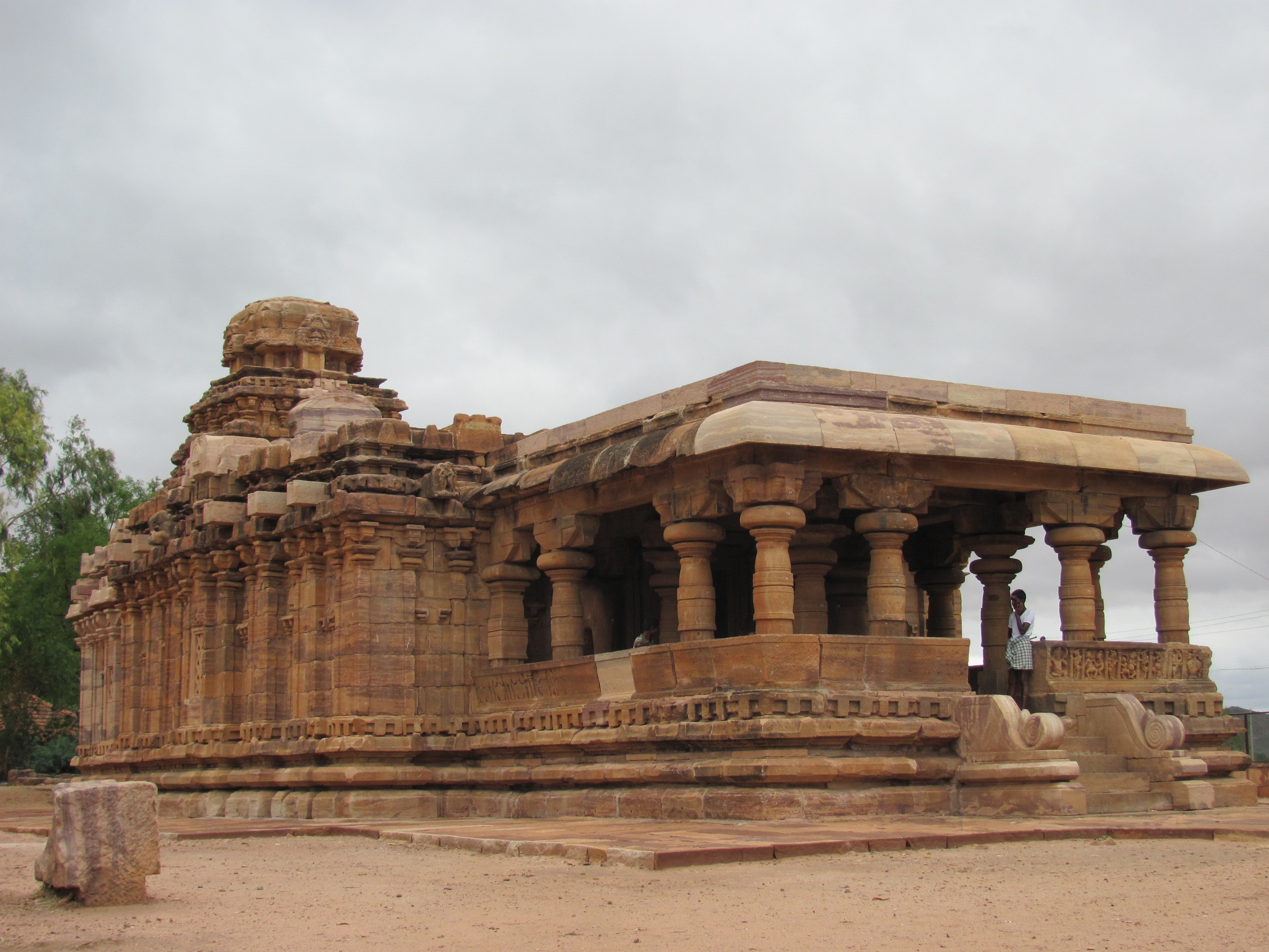 Meguti Jaina temple